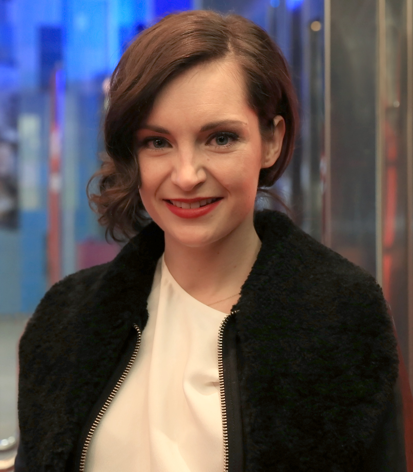 Sabrina Reiter at the Austrian premiere of Das finstere Tal at Gartenbaukino in Vienna.